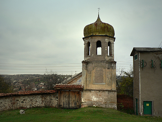 Belfry of the church "Saint Nikolay" in Golema Rakovitsa village, Bulgaria